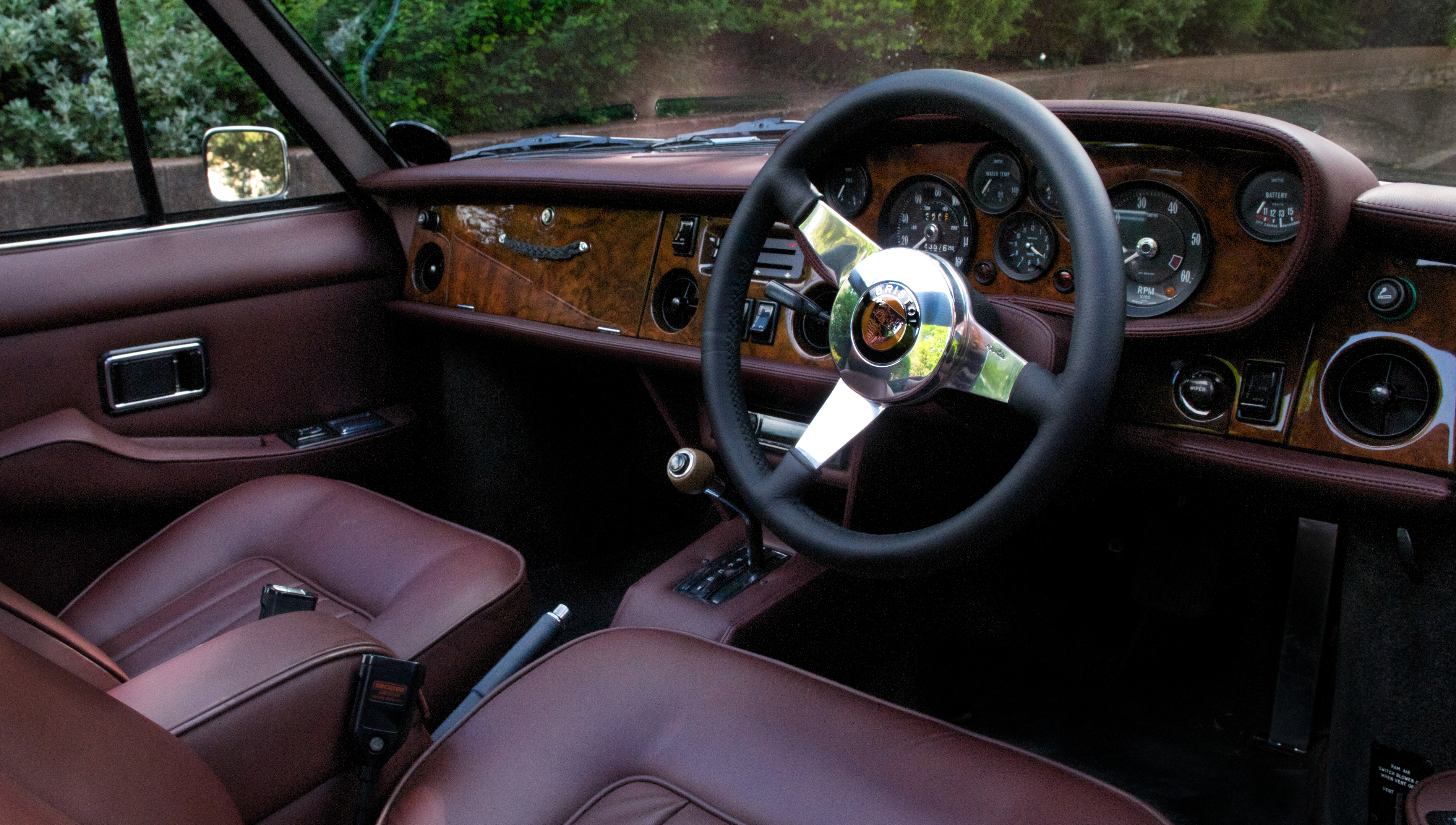 Bristol 412 Interior in Connolly Leather